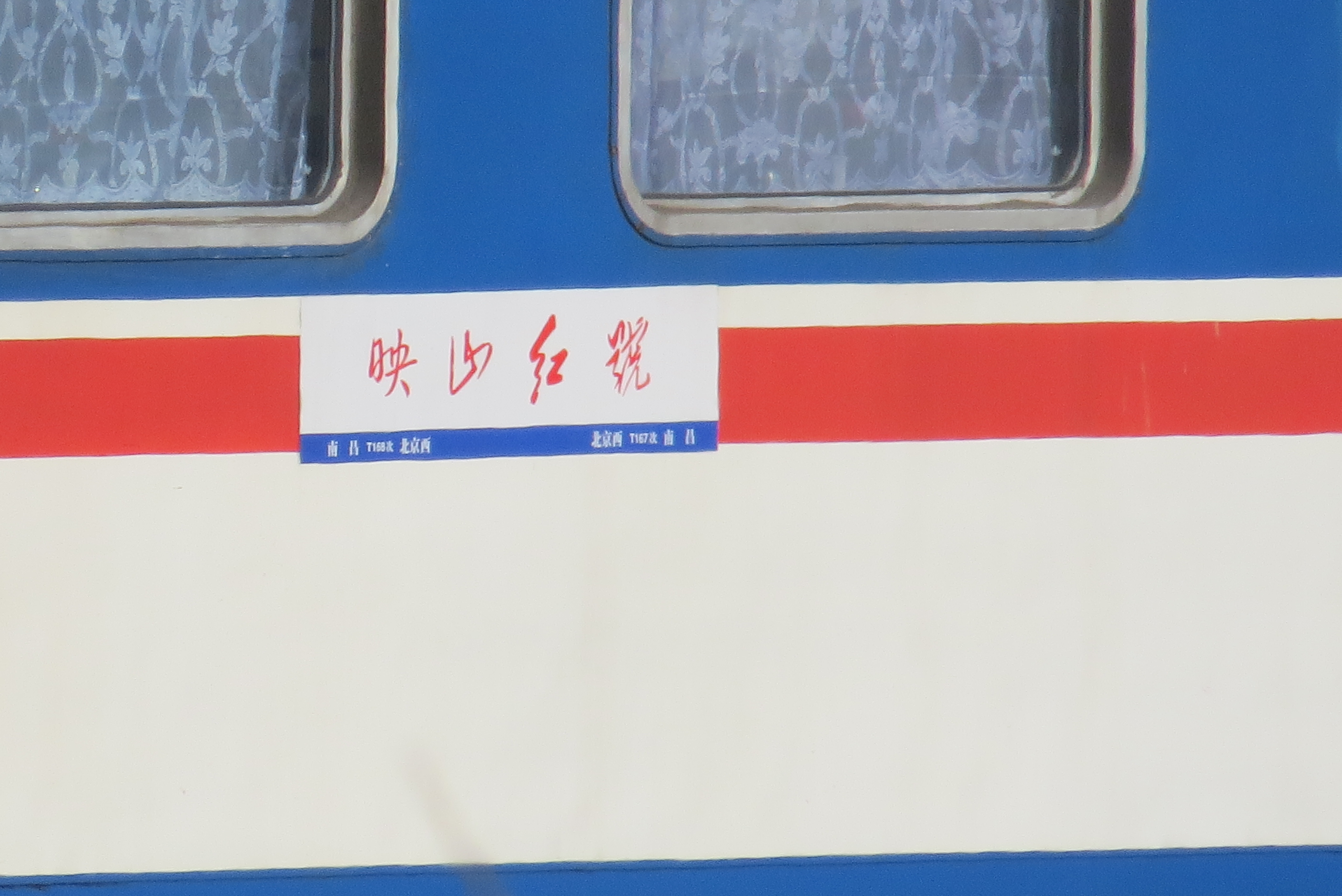 Named "Azalea". A revolutionary song is also named "Azalea".